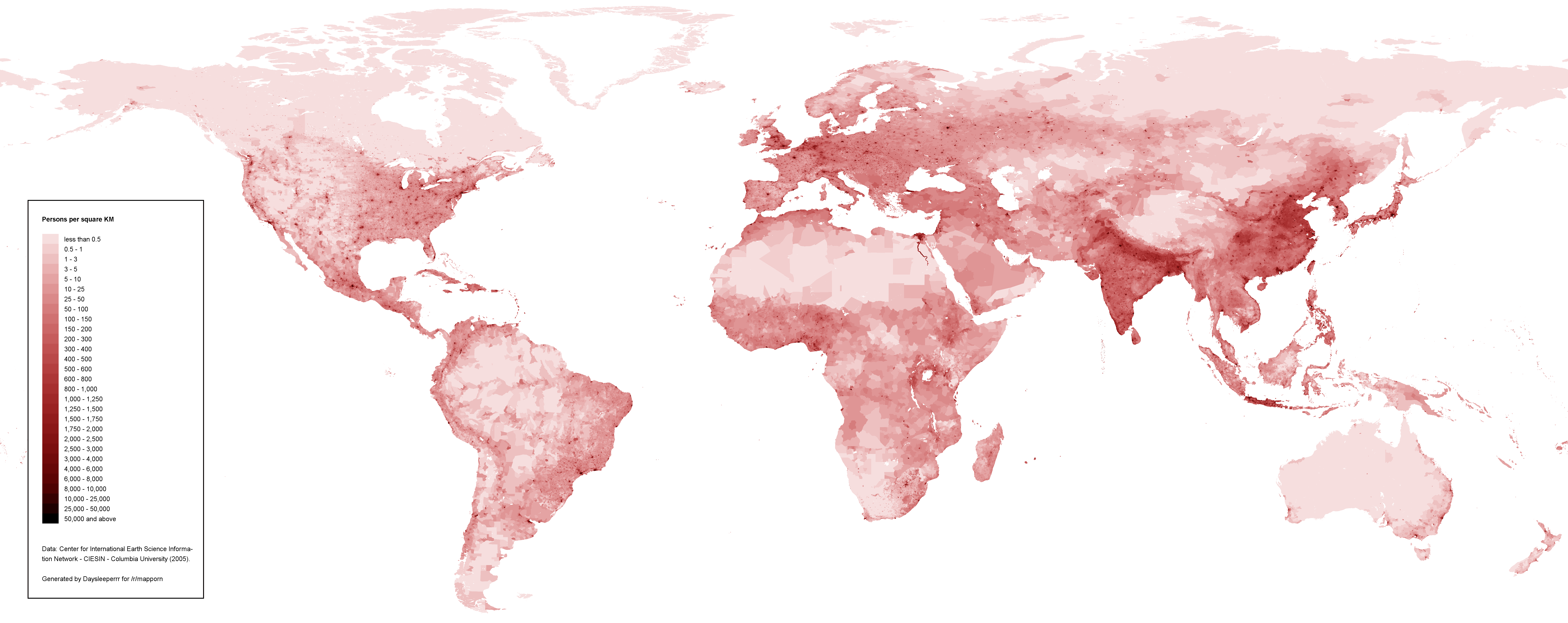 Map showing human population density across the globe.